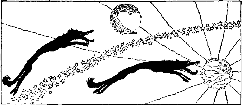 An illustration by Willy Pogany from a chapter from Children of Odin entitled "How Loki wrought mischief on Asgard". No title otherwise given for the work. The wolf Sköll chases the personified sun, Sól, and his brother Hati Hróðvitnisson chases the personified moon, Máni, from Norse mythology.